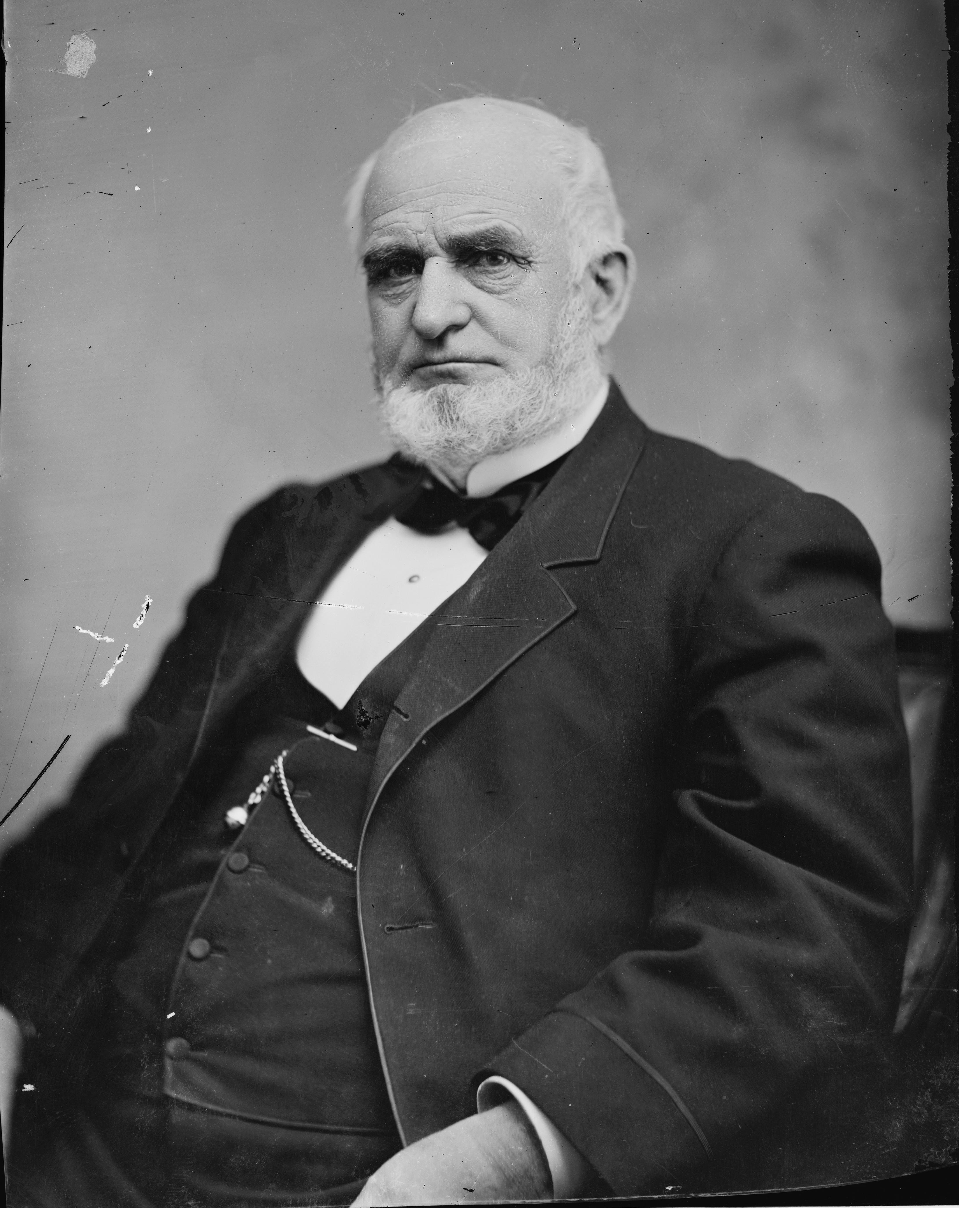 Philetus Sawyer. Library of Congress description: "Sawyer, Hon. Philetus of Wisc.".